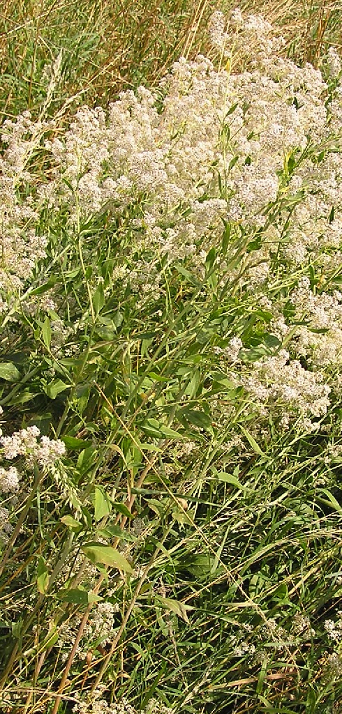 Lepidium latifolium near the river Rhine at Bonn (germany)